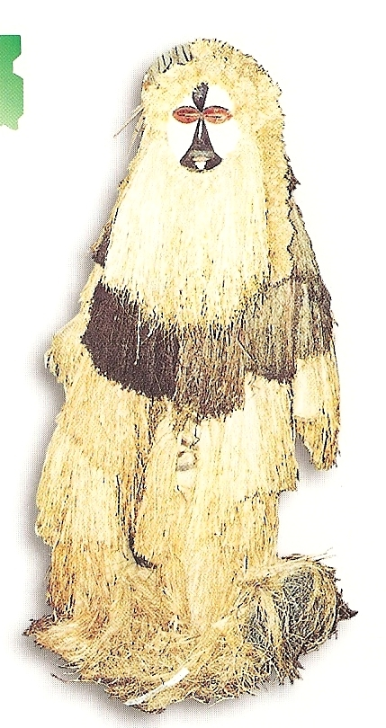 Bodi gabonese traditionnal mask from the Galwa ethny